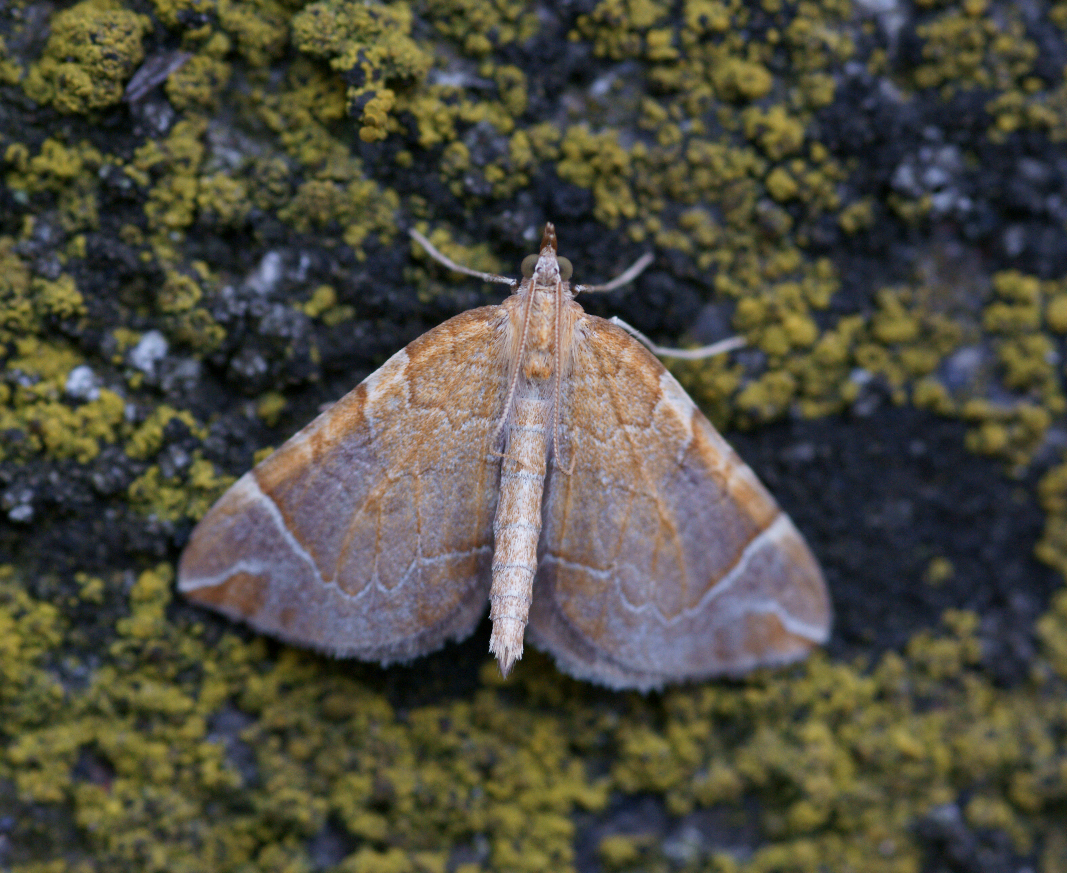 The Chevron (Eulithis testata).